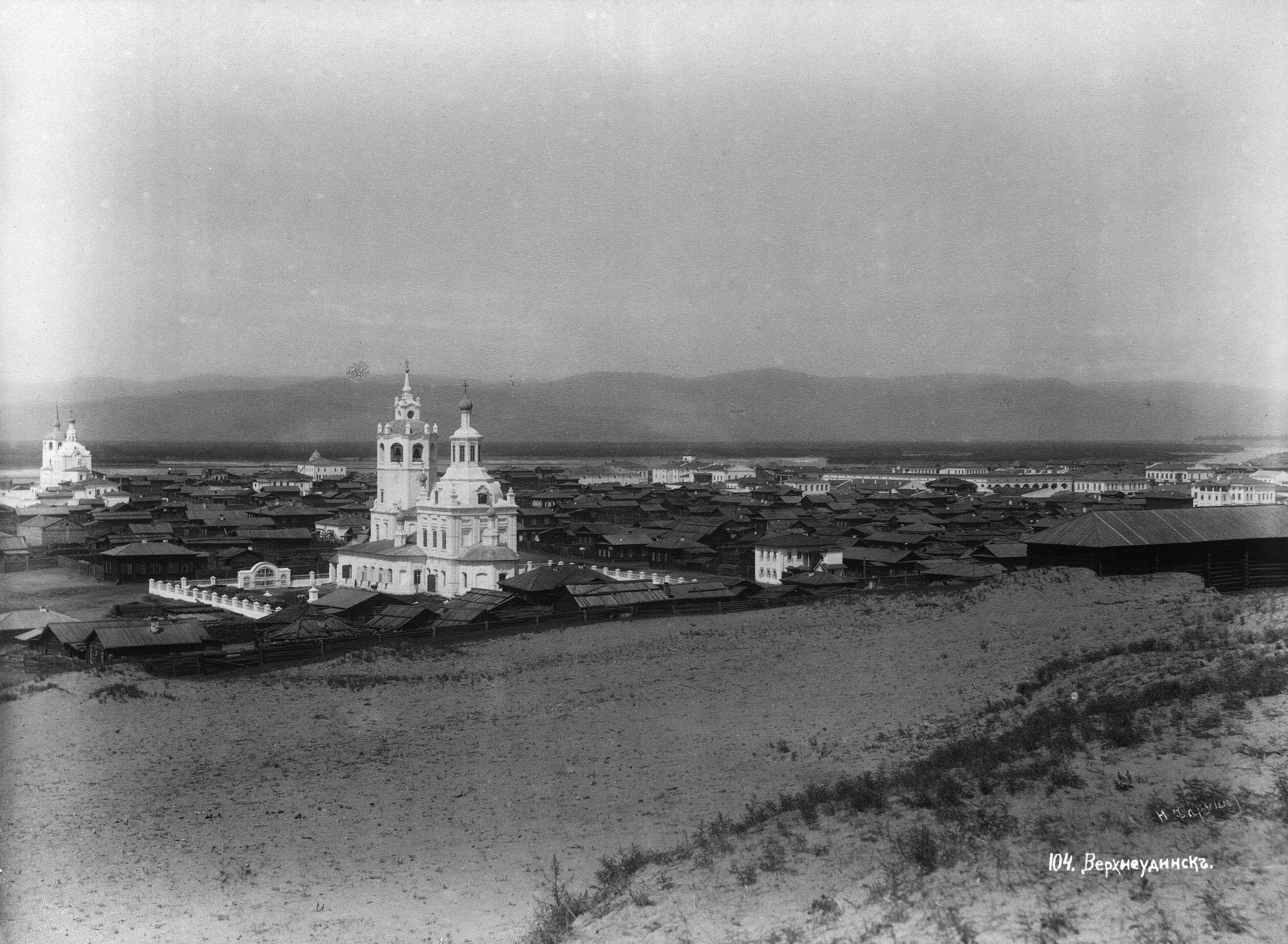 Verkhneudinsk